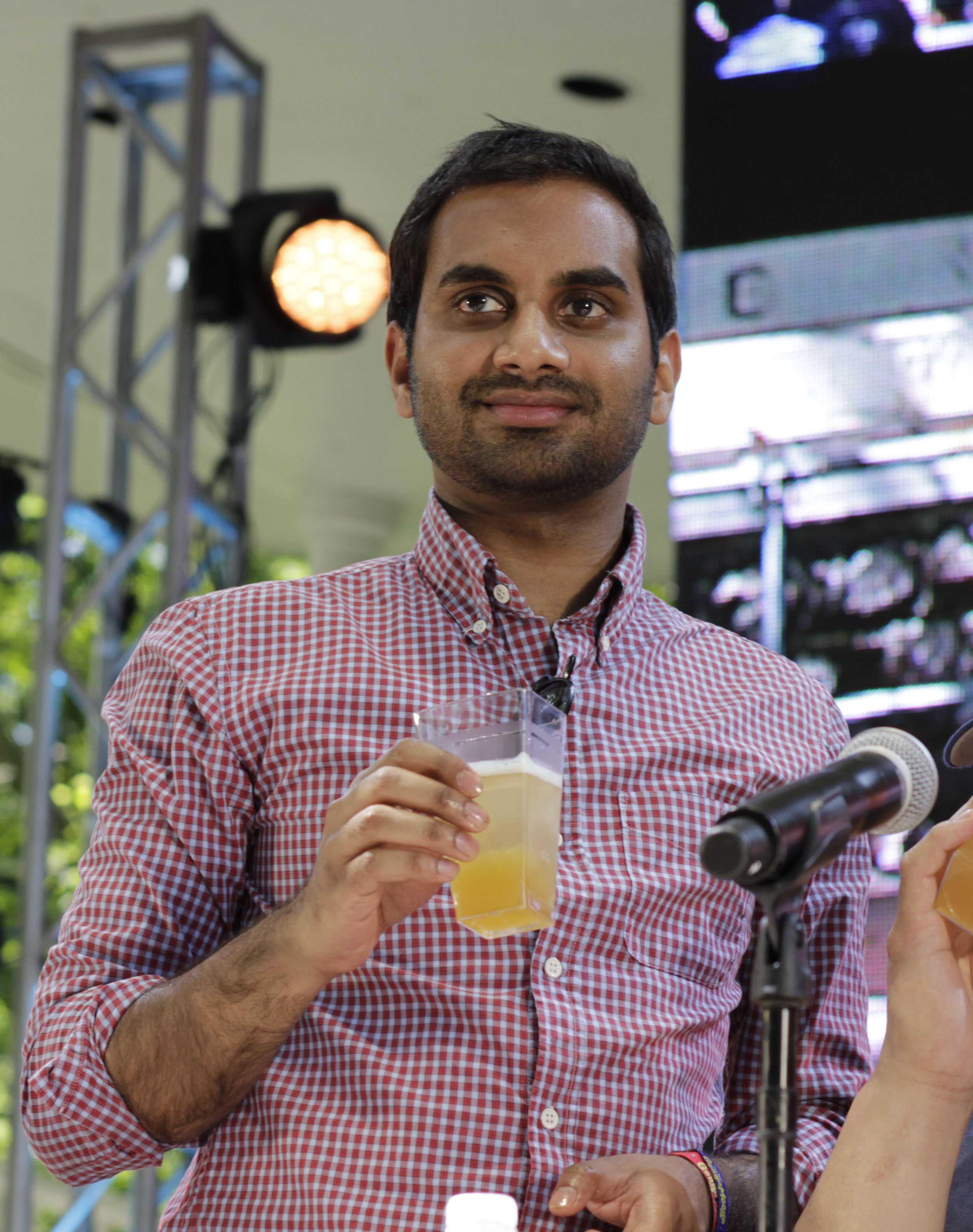 Prospect Park, Brooklyn, 5–19–2012 Check out the story at